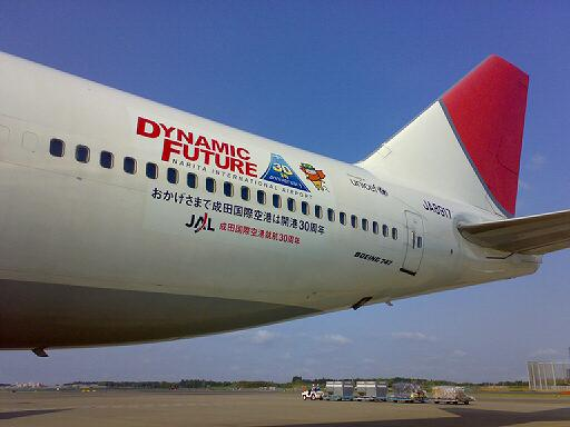 Japan Airlines Boeing 747-400 with Narita International Airport 30th anniversary livery